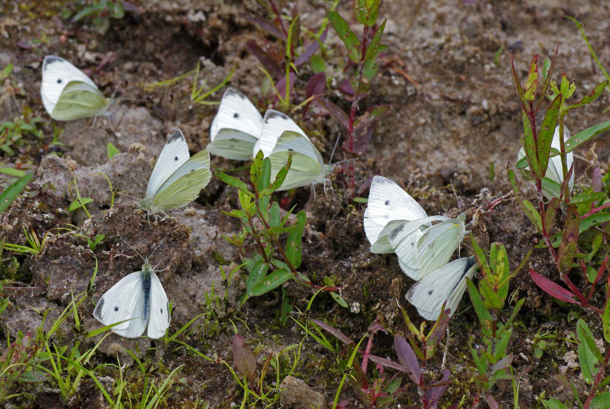 A collective salt lick of Small Whites, Pieris rapae, on alternate-soaked sandy clay (dried pool).